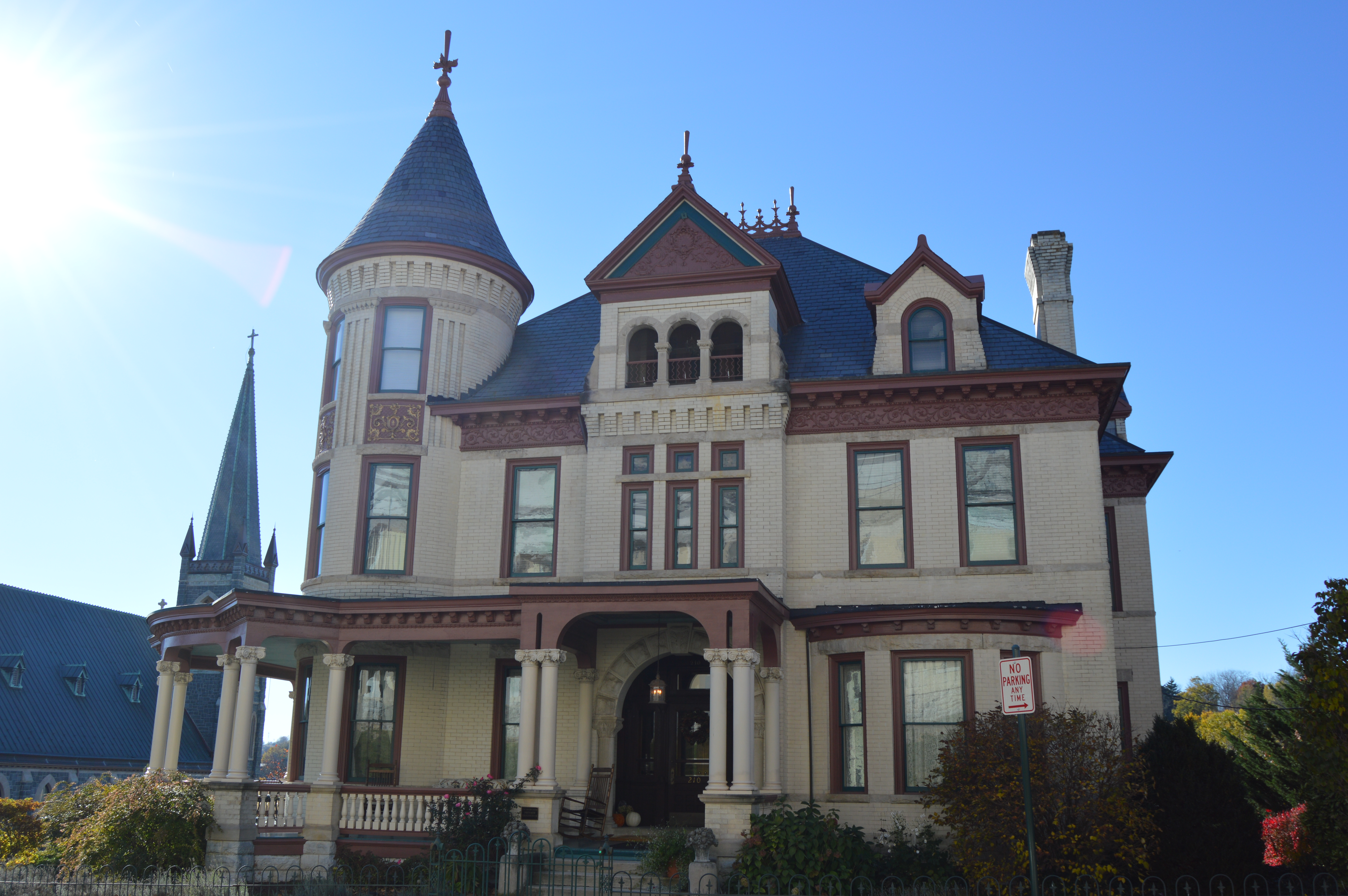 Eastern front of the C.W. Miller House, located at 210 N. New Street on the campus of Mary Baldwin University in Staunton, Virginia, United States. Built in 1899, it is listed on the National Register of Historic Places.